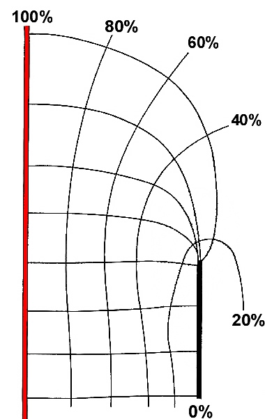 Electric field around the edge of an earth conductor. The equipotential lines (between 0% and 100%) concentrate around the edge so that danger of breakdown arises. Picture to be used for article High voltage cable.